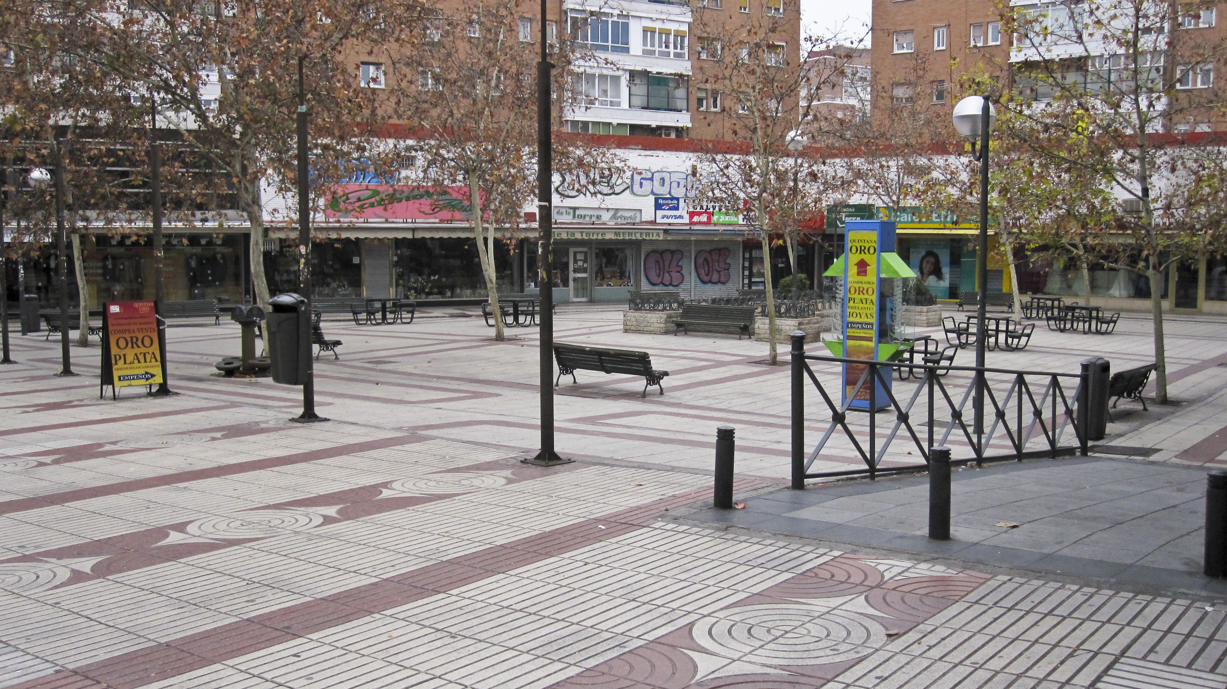 Plaza Quintana, Ciudad Lineal, Madrid, Spain.